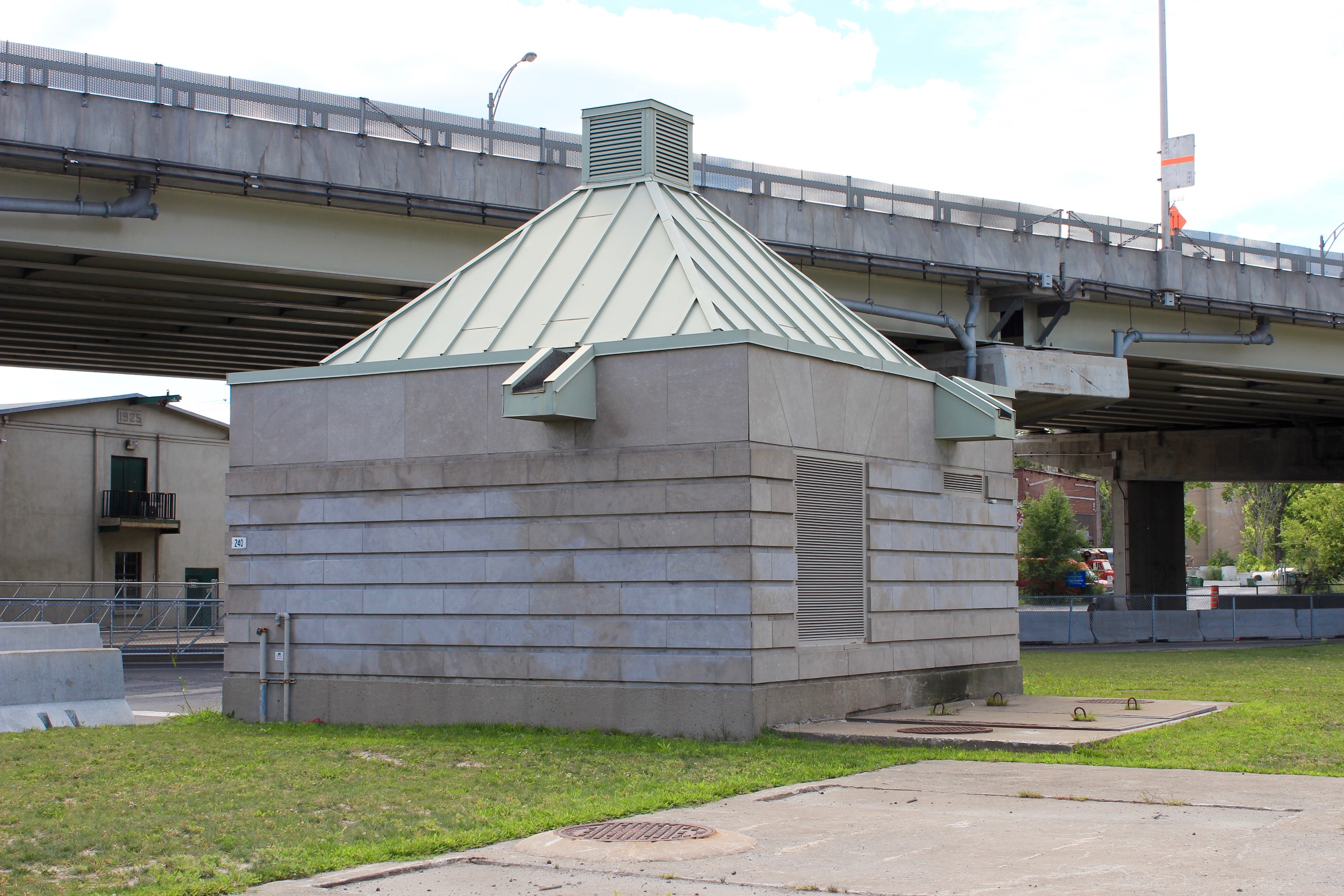 Interceptor sewer access